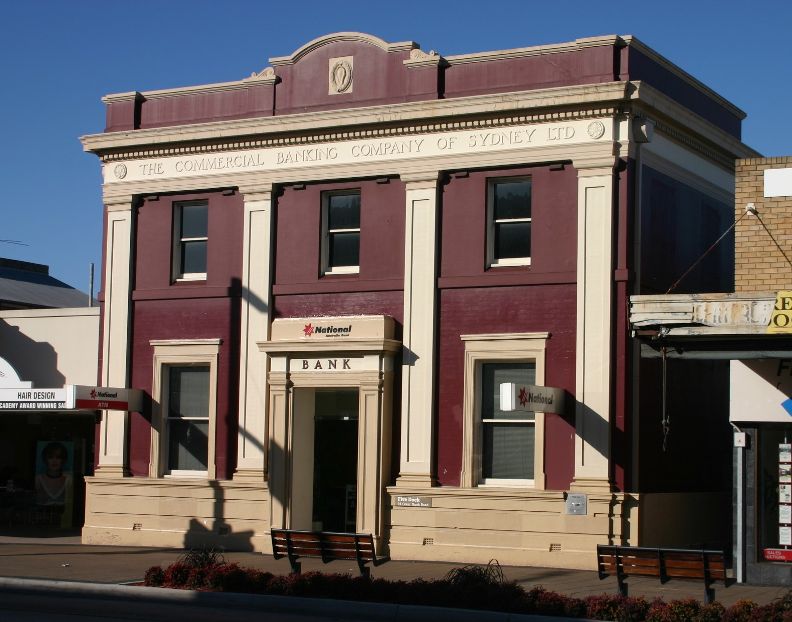 Five Dock Great North Road NationalBank.